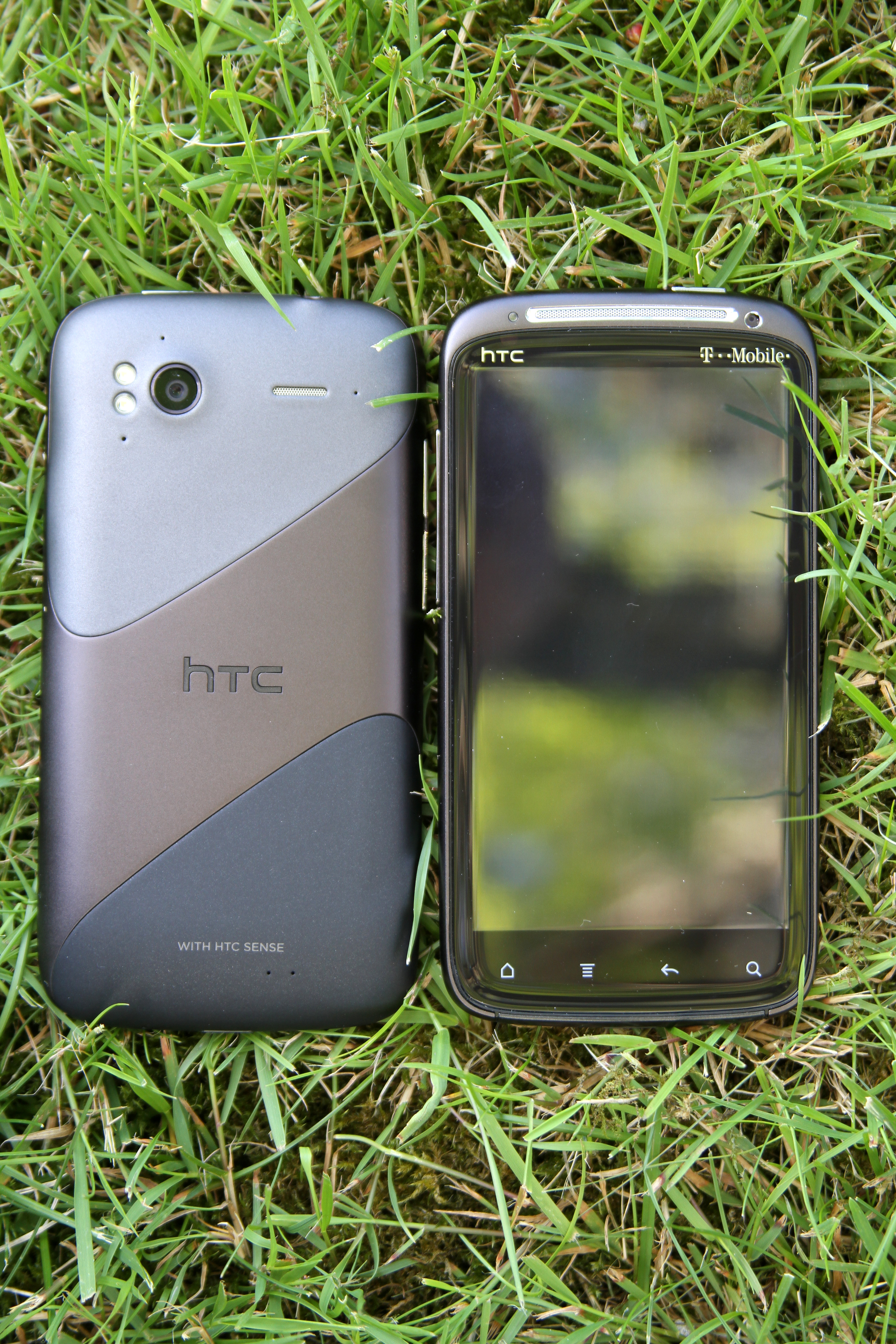 Two HTC Sensations displaying front and back